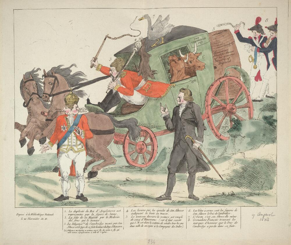 French political cartoon; French satire on the British recruitment of Hanoverian mercenaries and the Duke of Cambridge's flight from Hanover ahead of a French invasion. Also refers to George III's madness, showing his doctor, Willis.; Dated in pencil: "9 August 1803"; Dated: 26 Thermidor An XI [i.e. 9 August 1803]